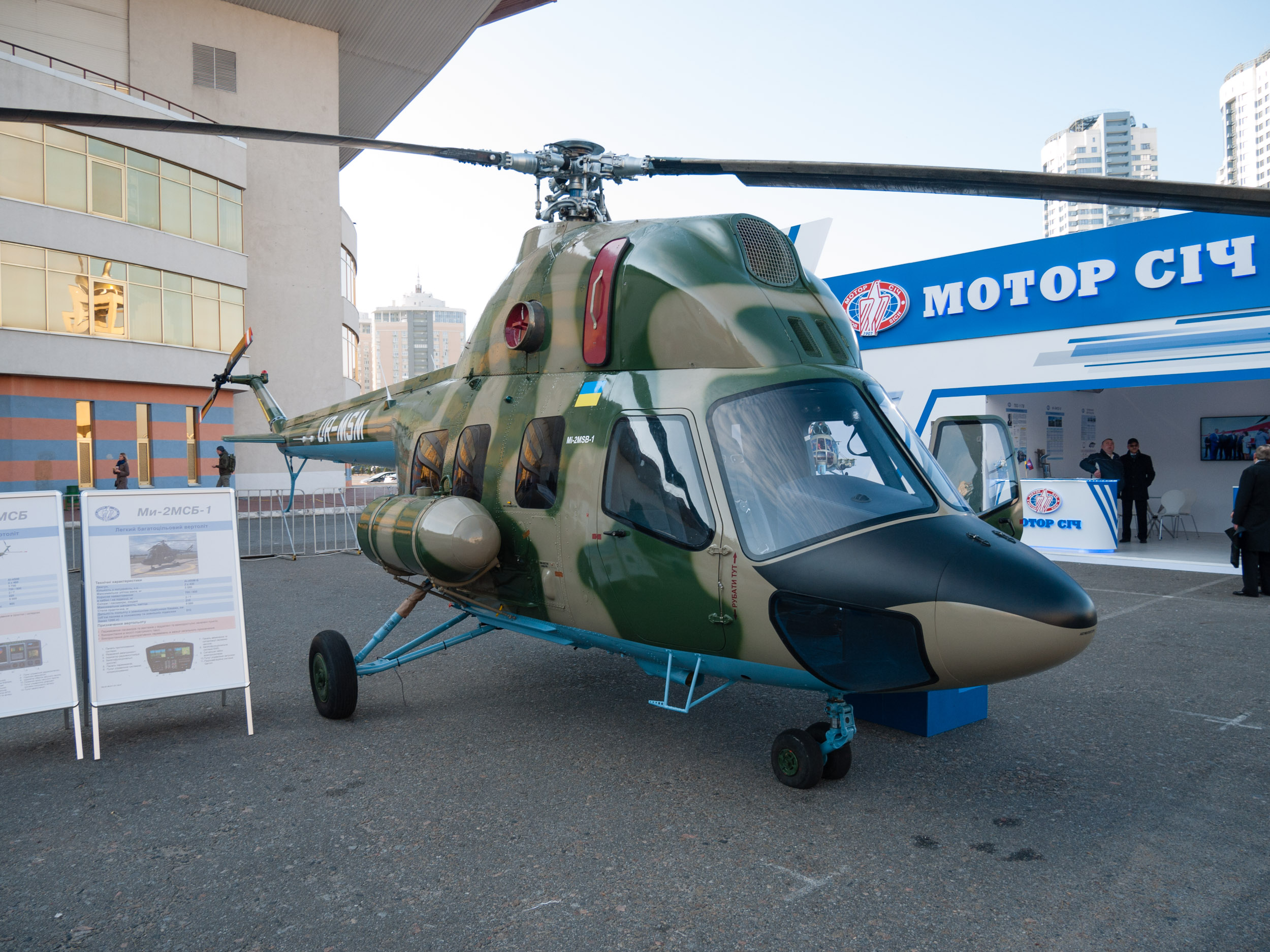 Mil Mi-2MSB-1 by Motor Sich (Ukraine). 'Zbroya ta Bezpeka' military fair, Kyiv, Ukraine, 2019